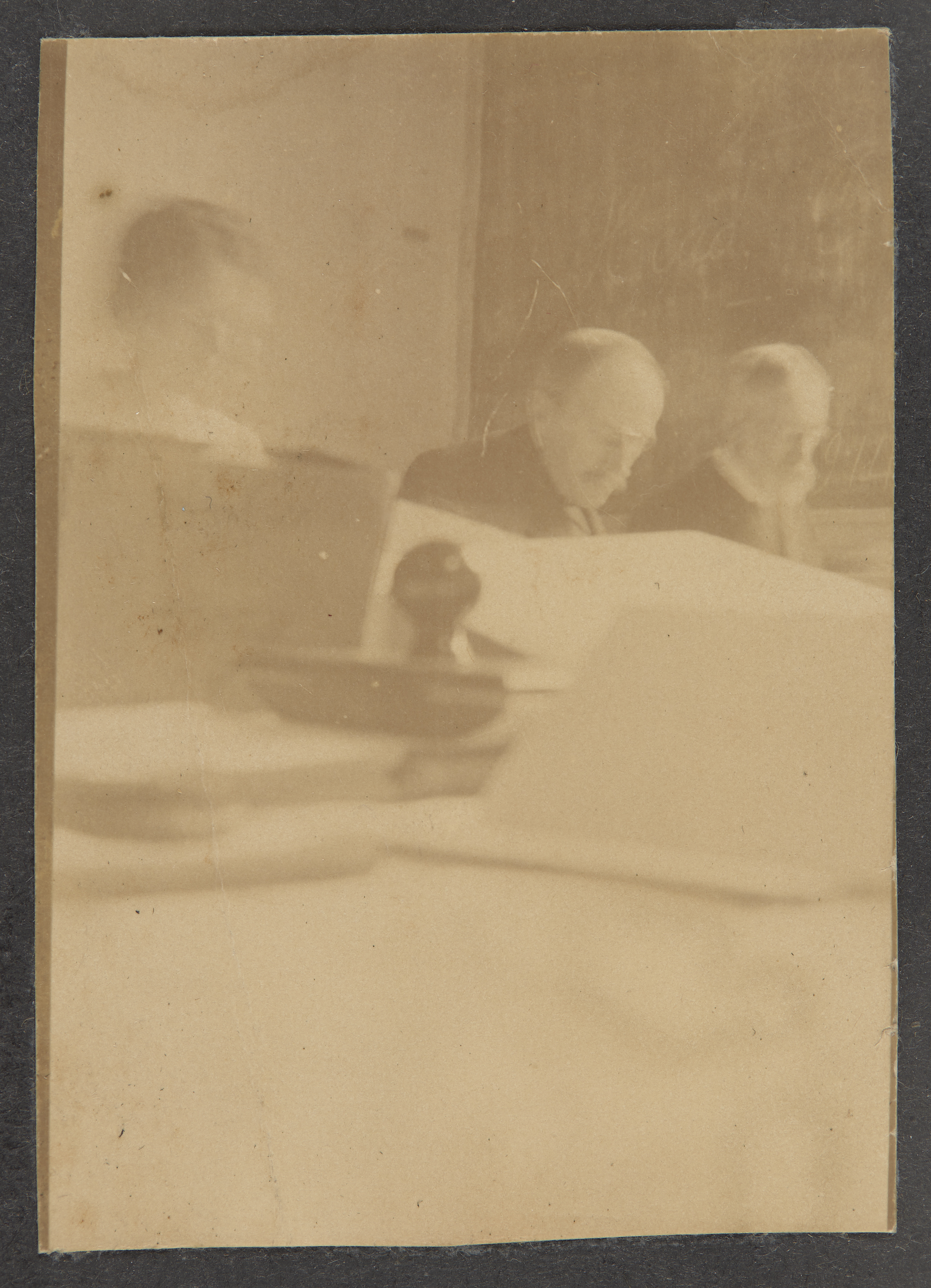 Guerre 1914-1918. Genève, musée Rath. Agence internationale des prisonniers de guerre. War 1914-1918. Geneva, musée Rath. International Prisoners-of-War Agency, office for the civilians French writer Romain Rolland (centre) with the IWPA civilian office director Frédéric Ferrière (right) and an unidentified woman. Photo uploaded as part of the International Archives Week 2020 joint initiative of Wikimedia Switzerland, Austria and Germany and the Association of Swiss Archivists.